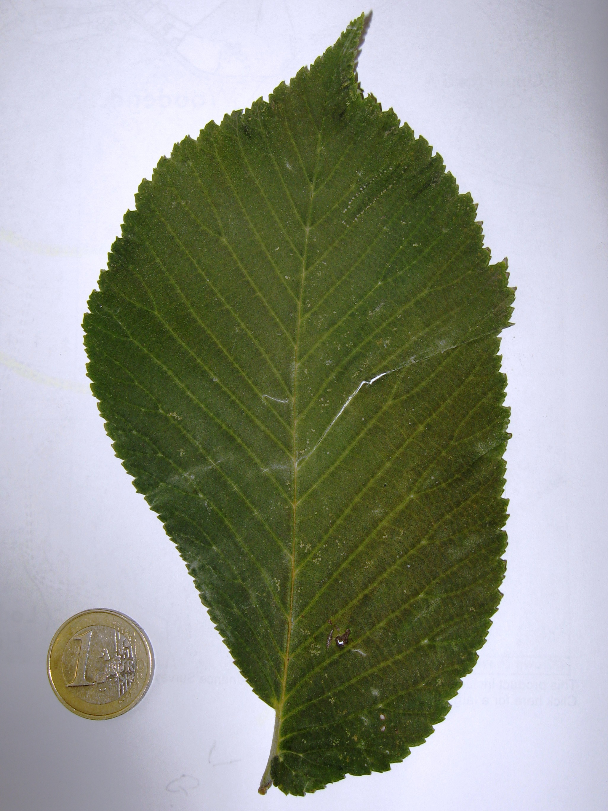 Photo of typical wych elm leaf.